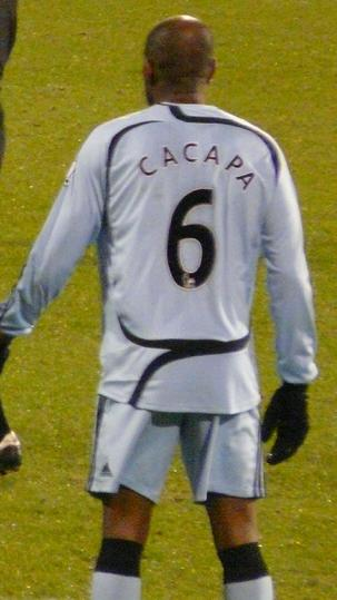 Brazilian football (soccer) player Caçapa